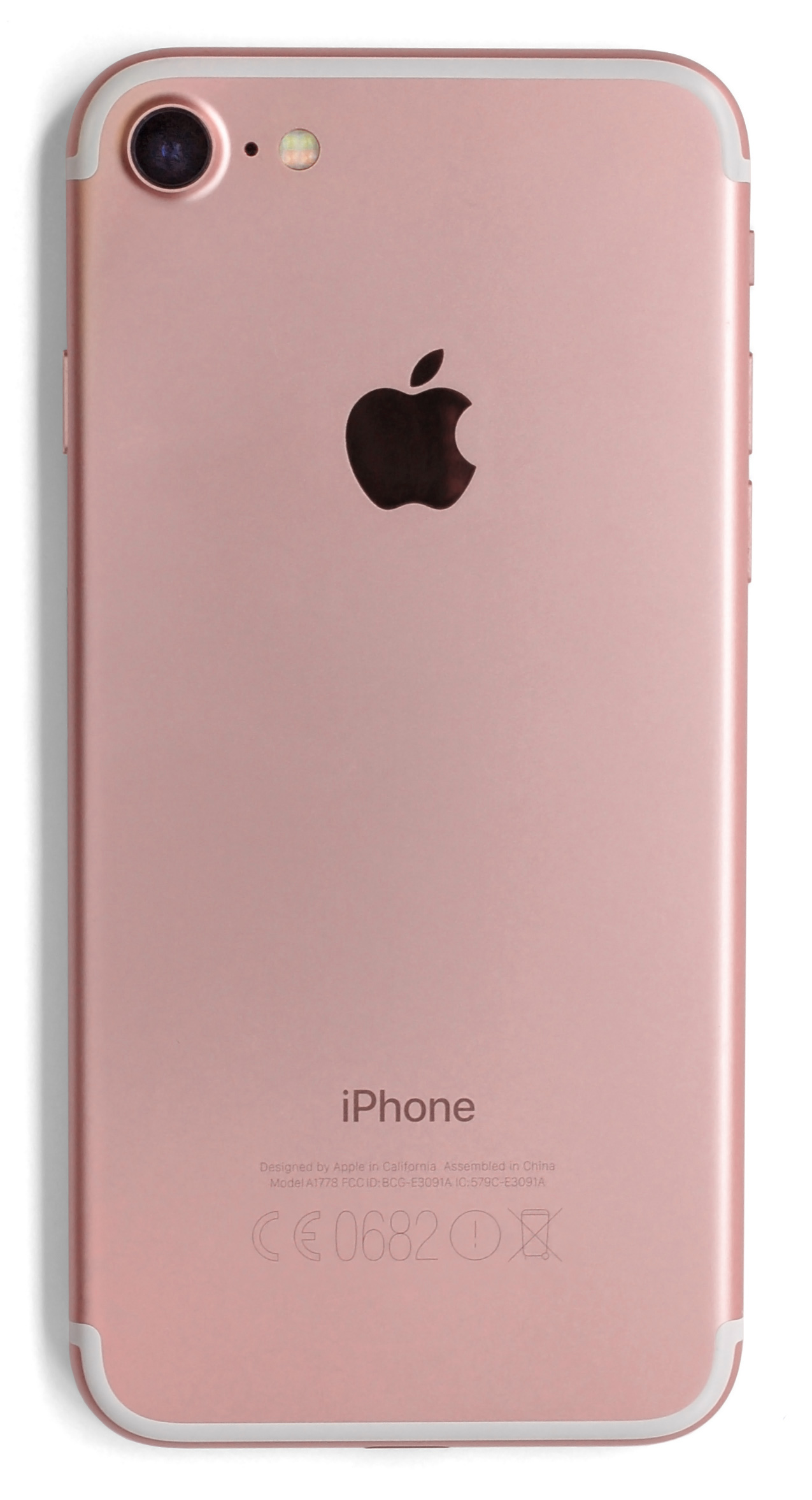 iPhone 7 - A1778 Rose Gold back